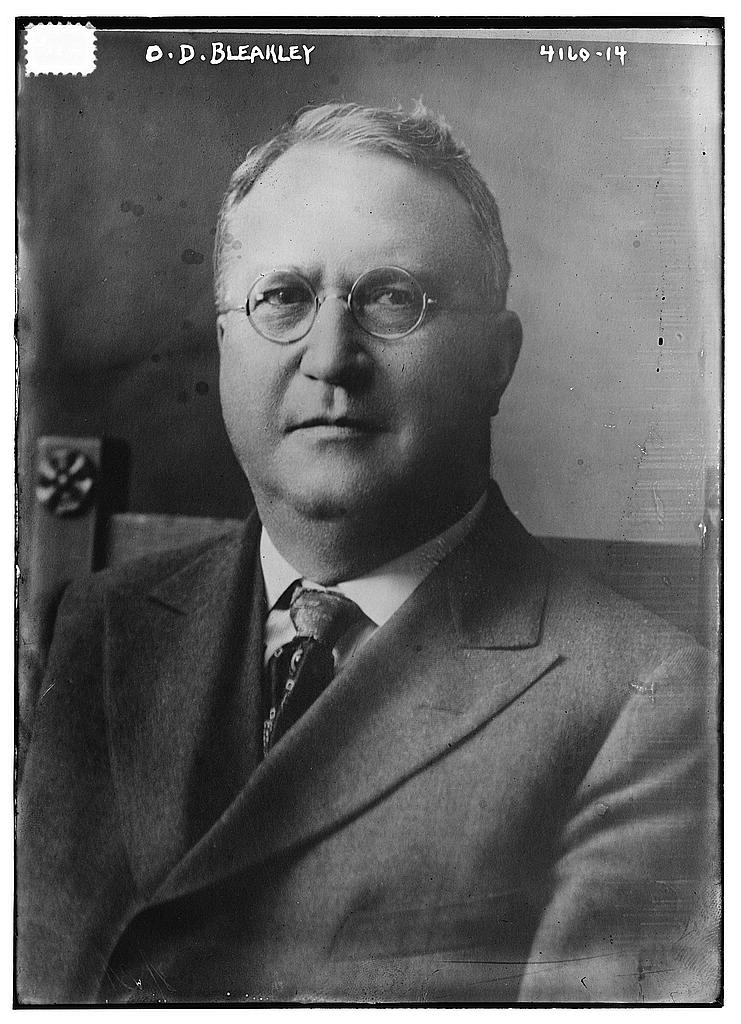 Orrin Dubbs Bleakley circa 1915